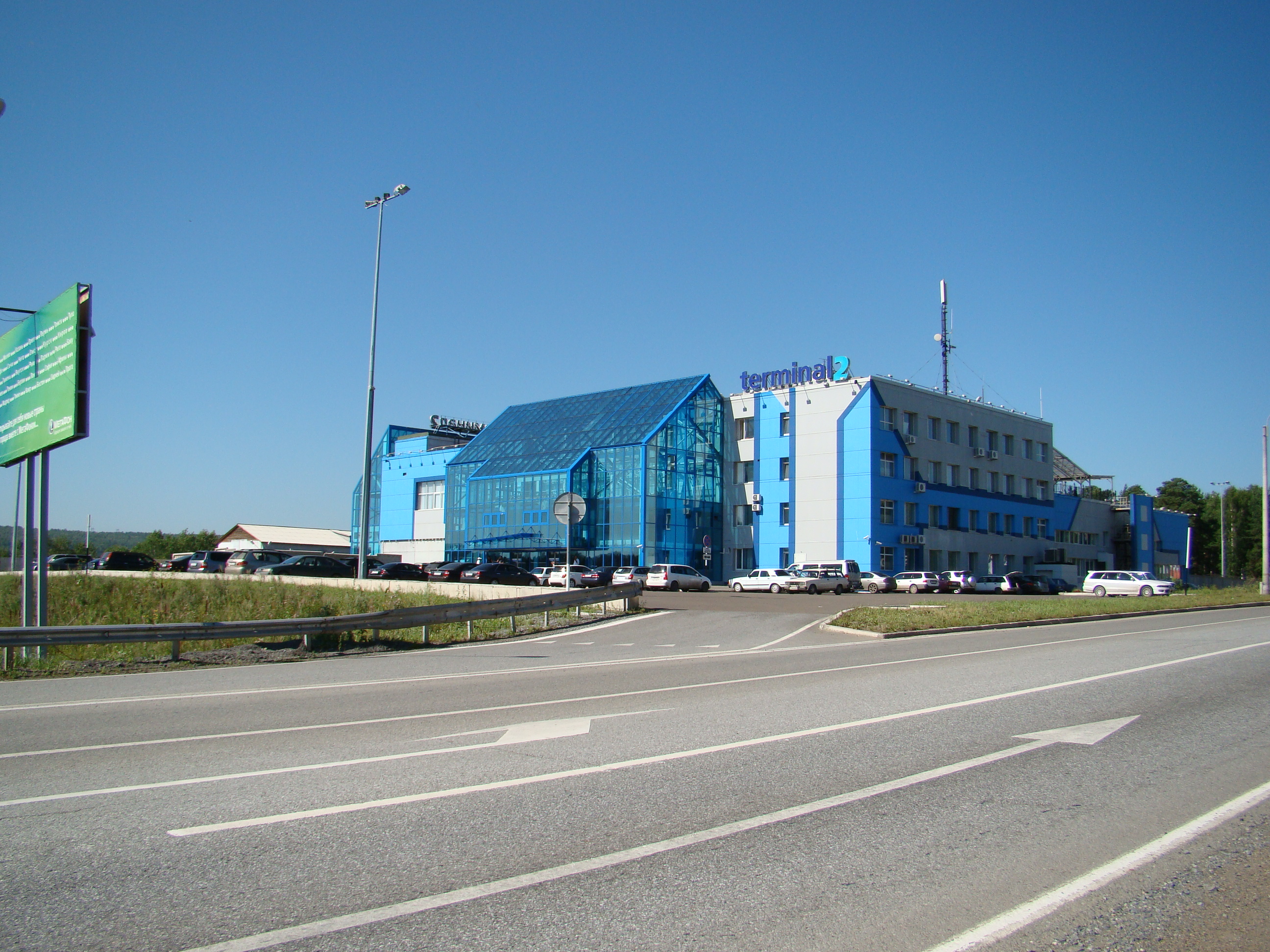 Terminal 2 in Emelyanovo airport